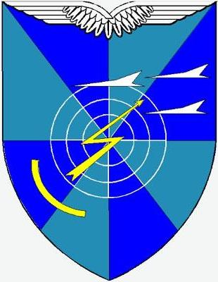 Internal coat of arms of the Bundeswehr (Armed Forces of the Federal Republic of Germany). → Remarks on naming and categorization scheme